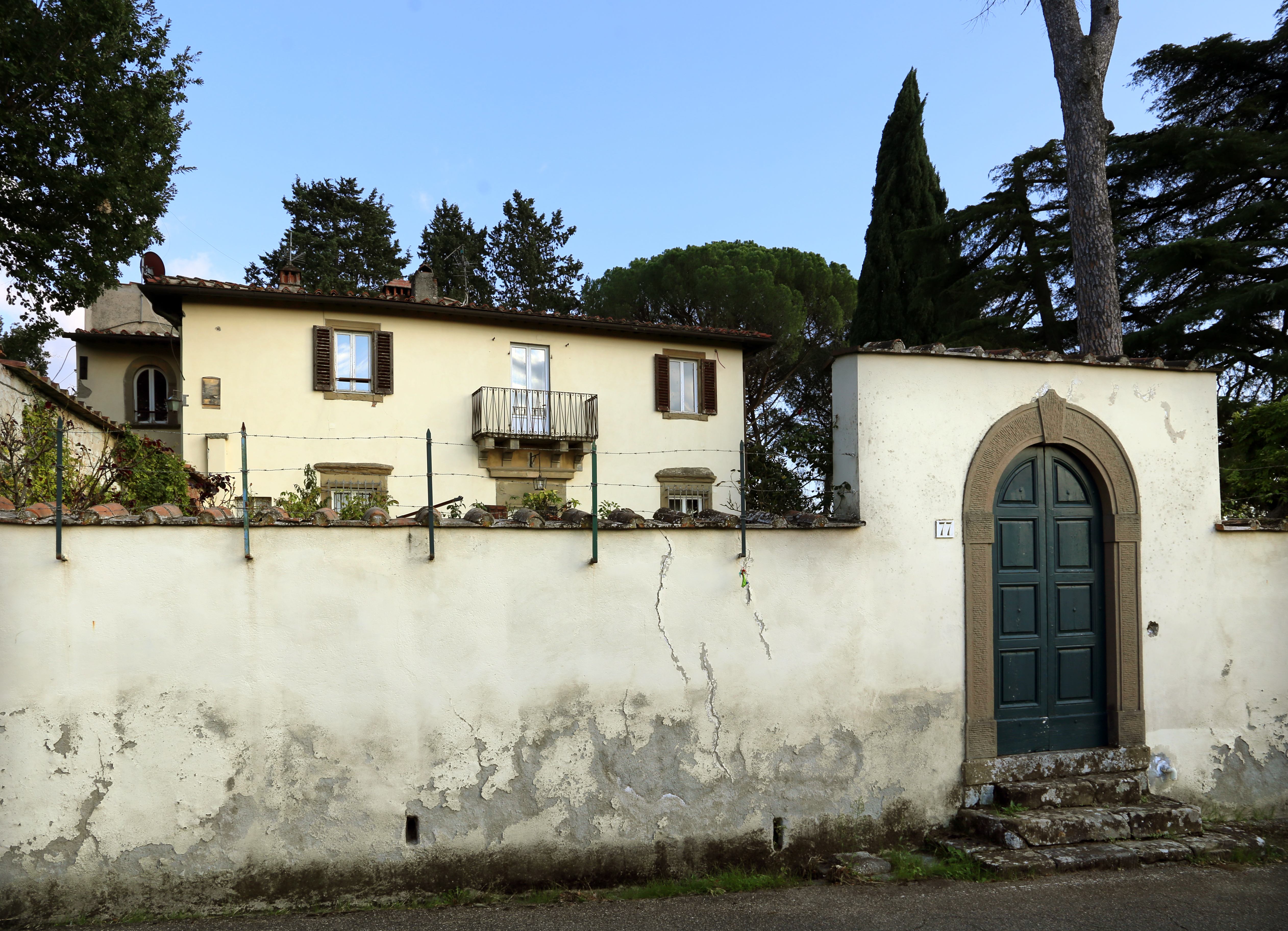 Settignano